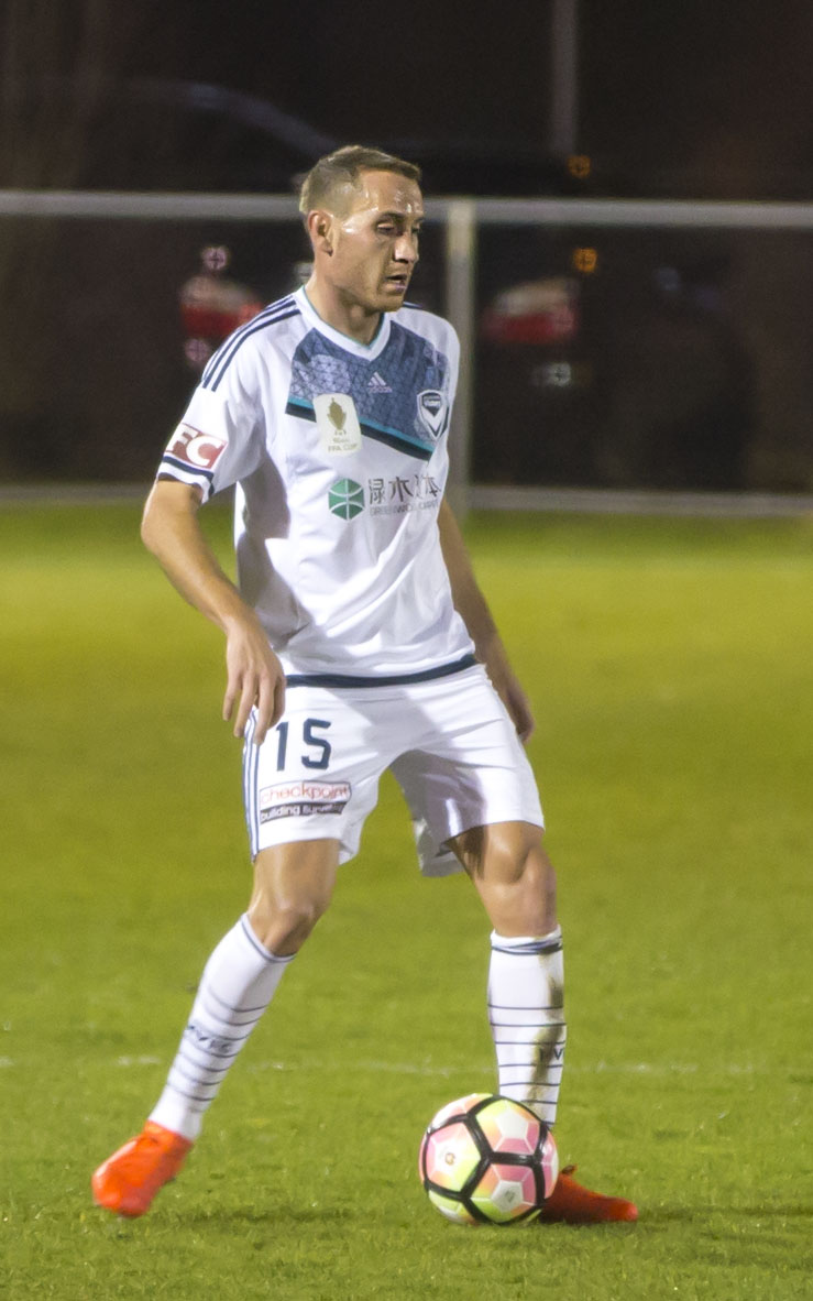 Alan Baro playing for Melbourne Victory in a friendly match against Port Melbourne, 9 August 2016